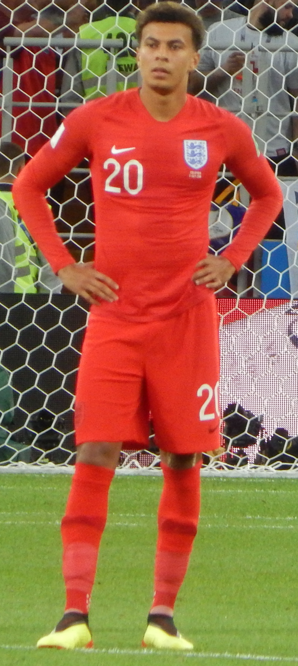 FIFA World Cup 2018, Round of 16, Colombia vs. England